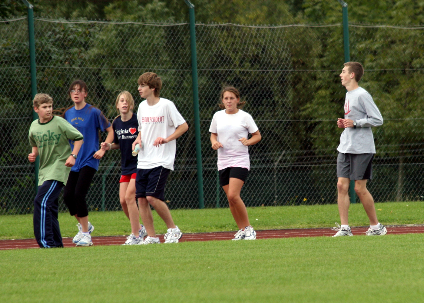 Backwards running - one of our team building activities.